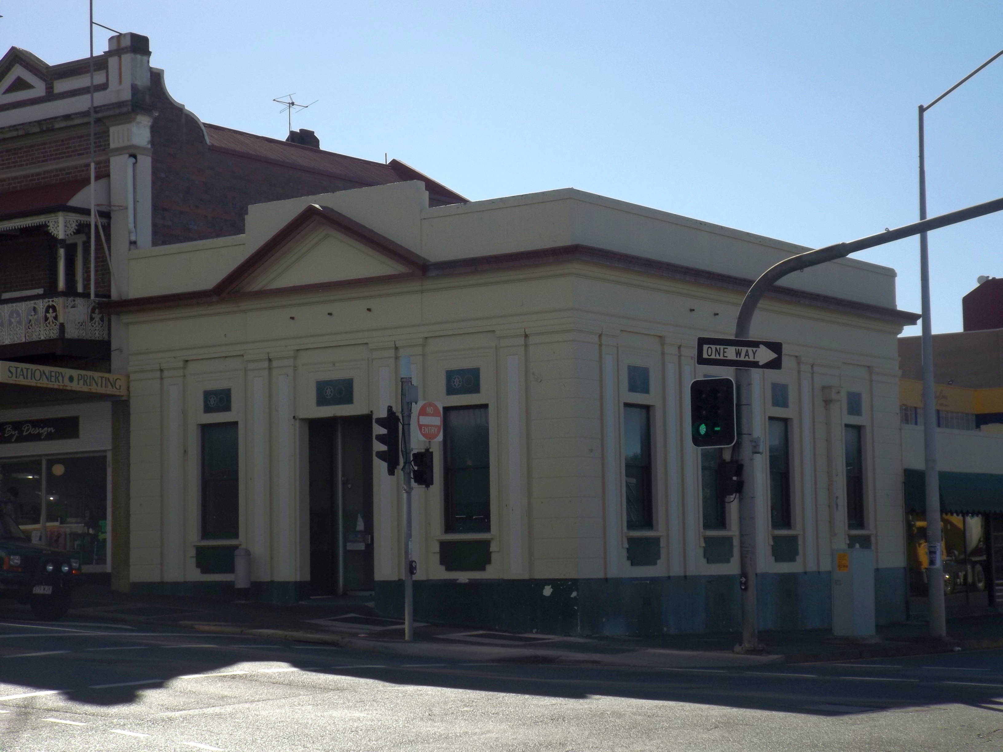 Photo of Queensland National Bank at Ipswich, Queensland, Australia.